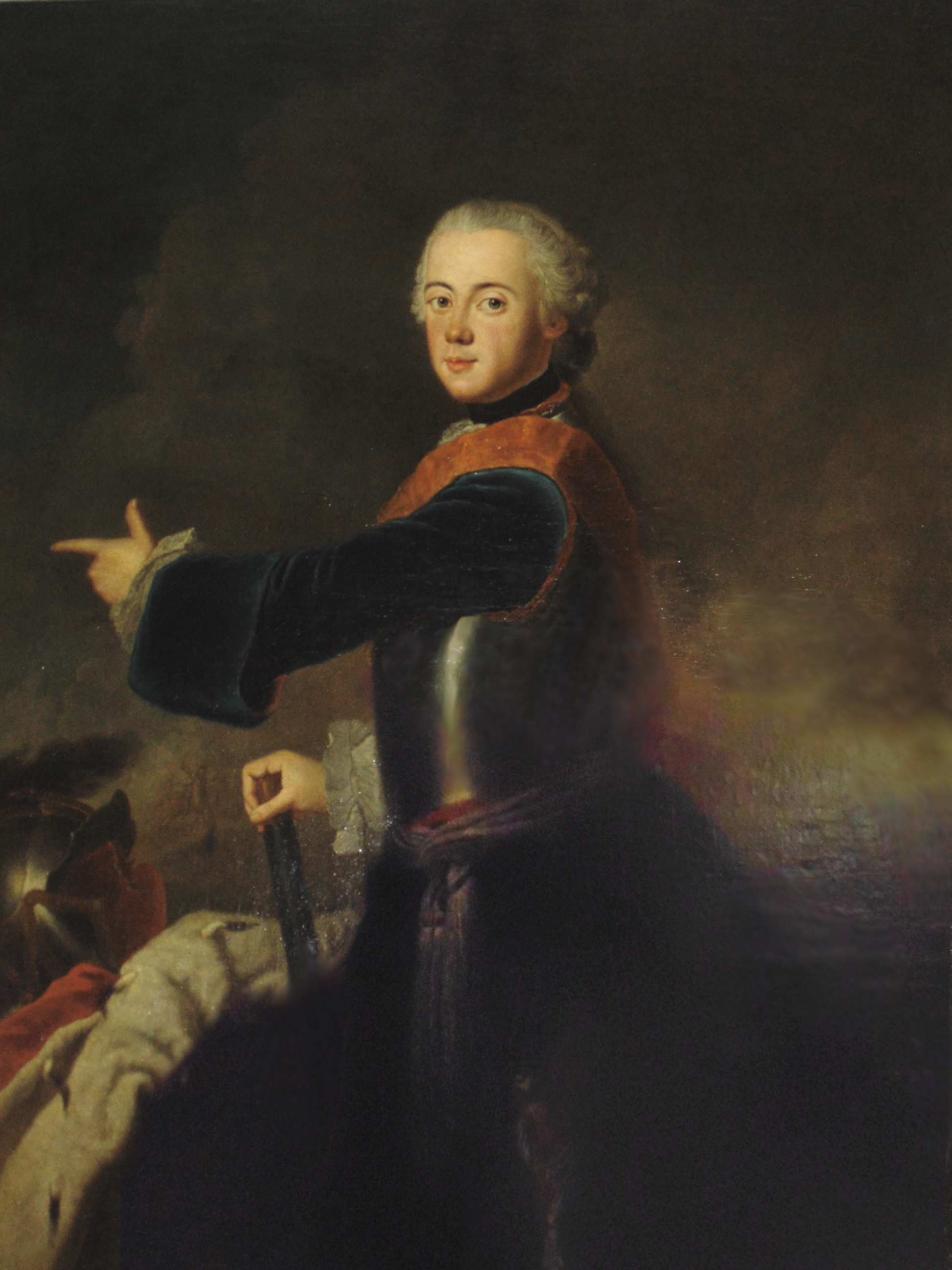 Portrait Prince Henry of Prussia (1726–1802)